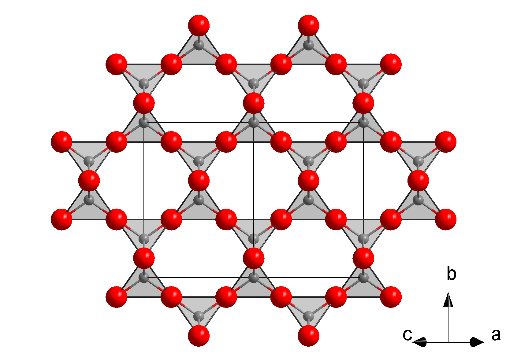 Crystal structure of β-cristobalite